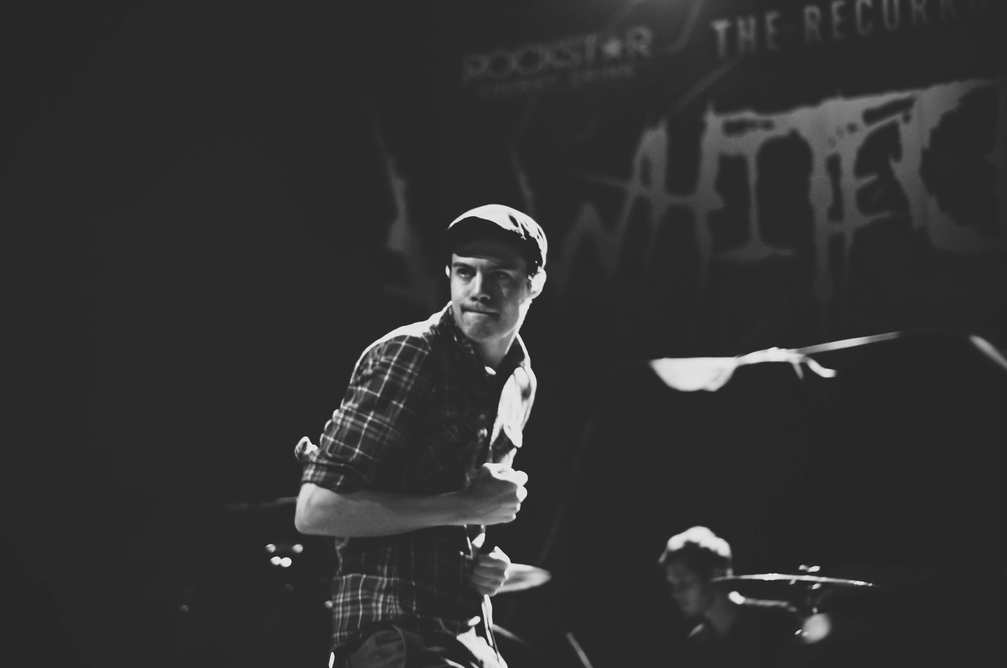 Landon Tewers of "The Plot in You". The Recorruptour - Tucson, AZ